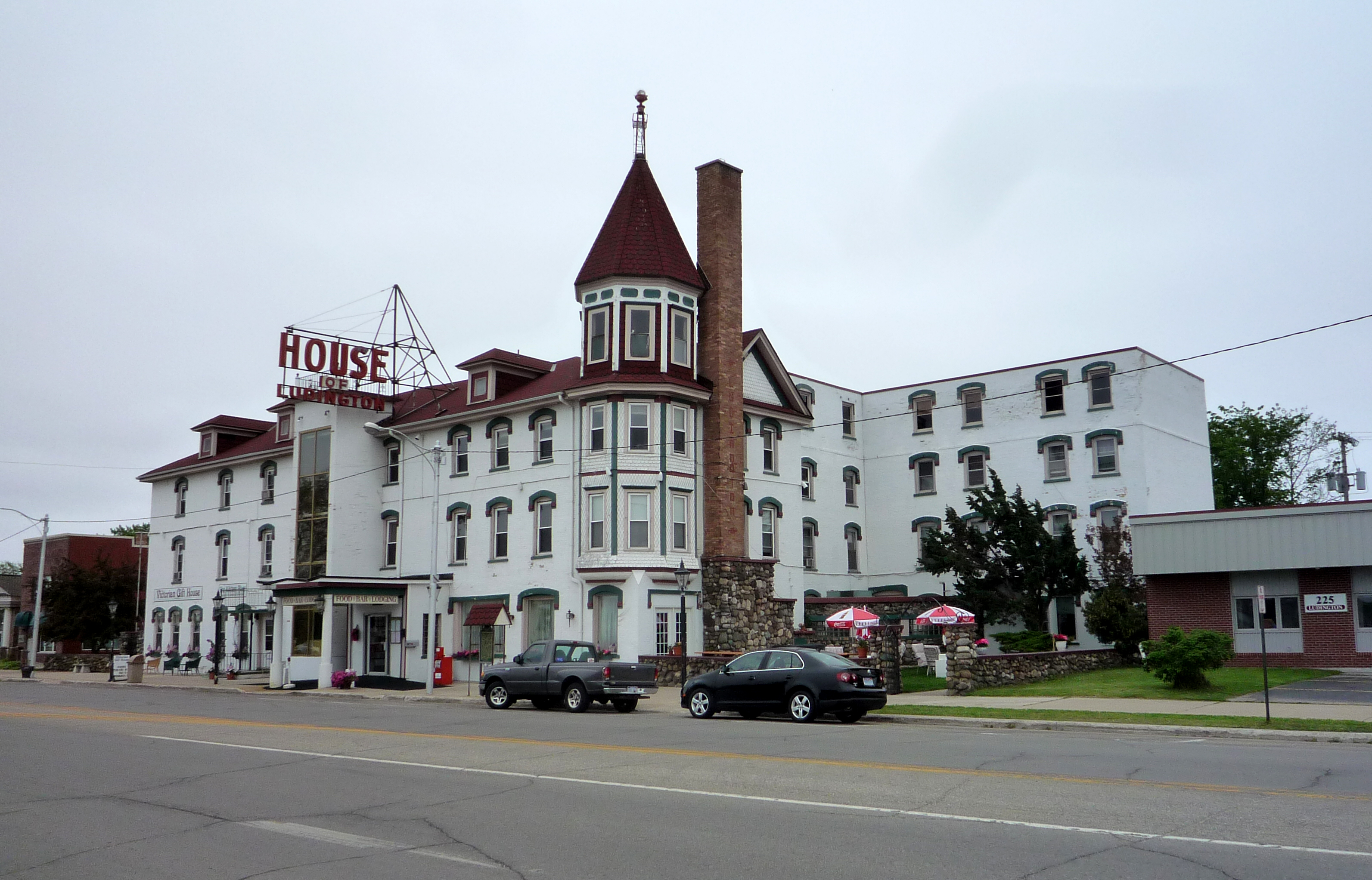 Historic House of Ludington, Escanaba, Michigan, USA.